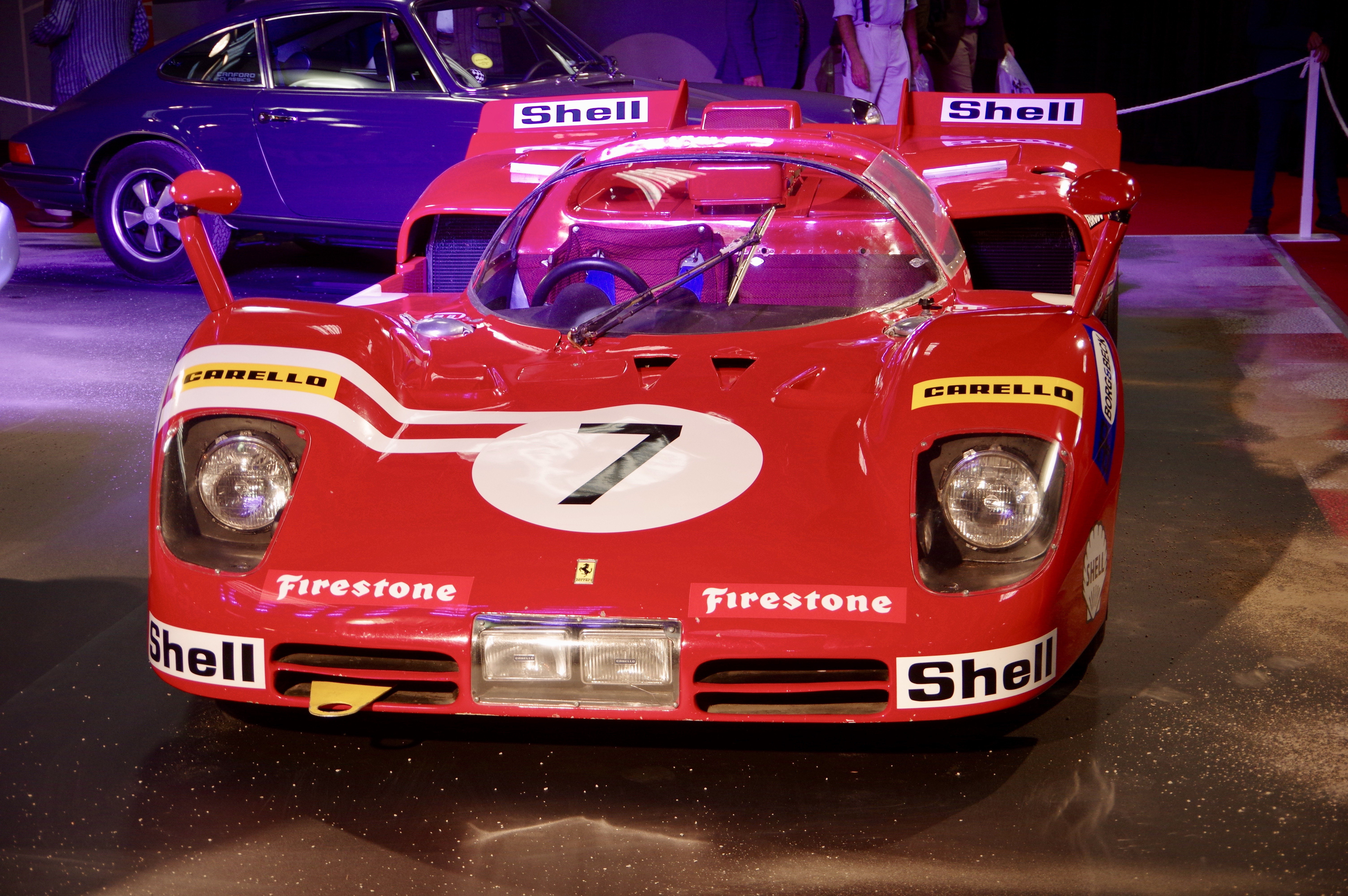 This car won the 1970 Sebring 12 Hours and was later used in the production of Steve McQueen's Film "Le Mans" - Goodwood Revival 2018